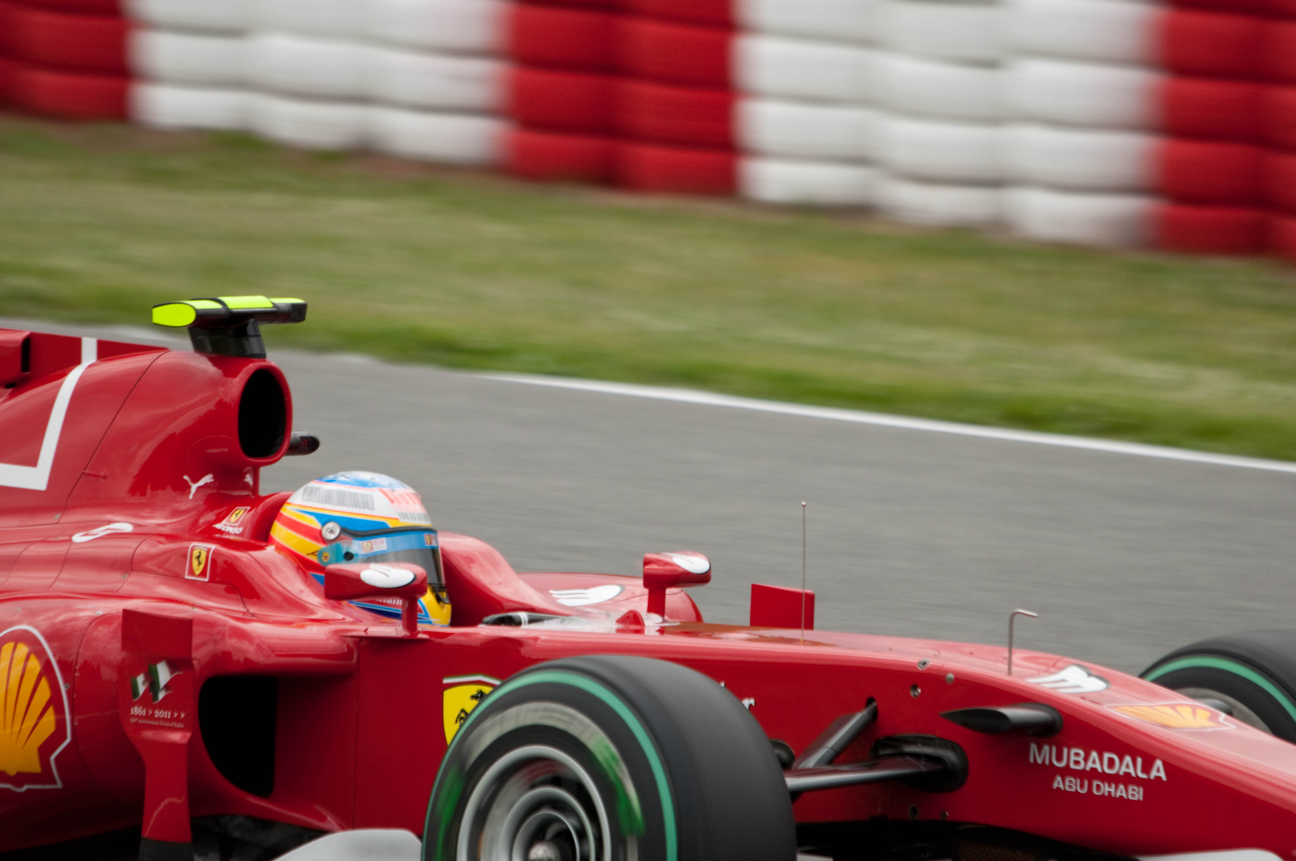 Fernando Alonso driving for Scuderia Ferrari at the 2010 Spanish Grand Prix.